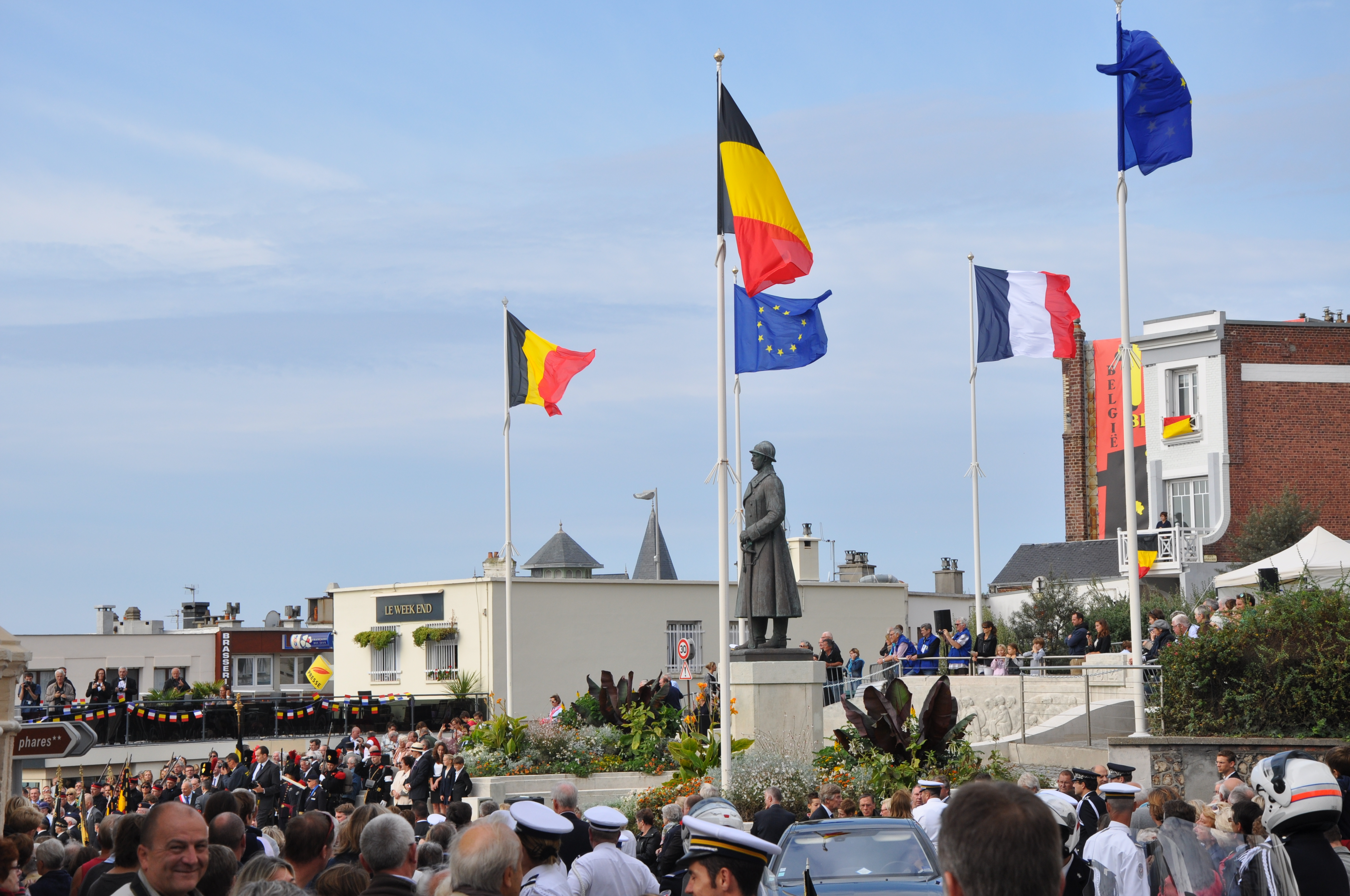 Centenary of exile in Sainte-Adresse (France, Normandy) of belgium government